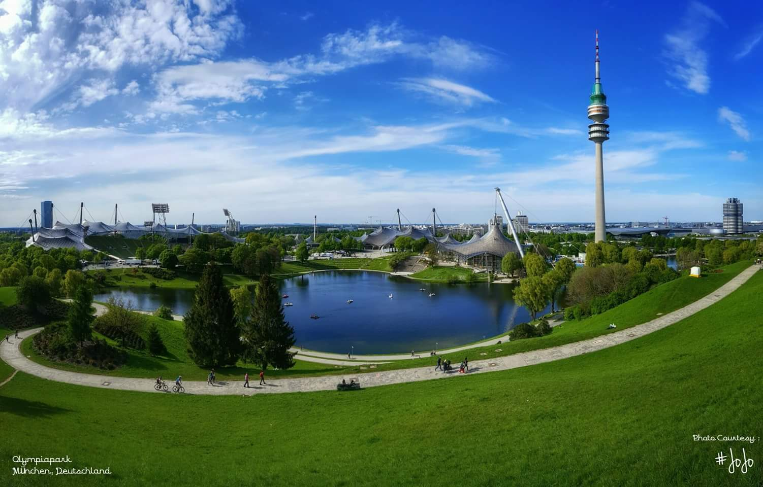 Olympia Park - Munich, Germany